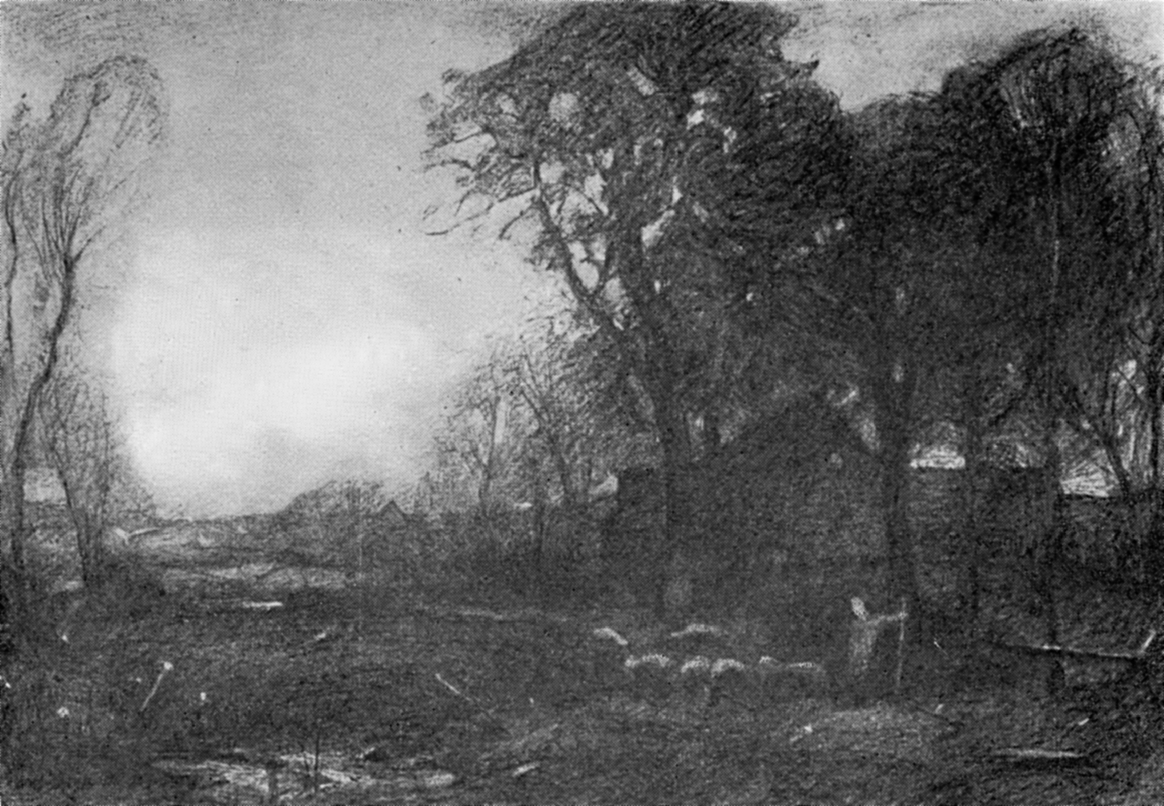 Black-and-white print reproduction of painting "Sunshine and Shadow." From the materials for the Alaska-Yukon-Pacific Exposition of 1909, held in Seattle.